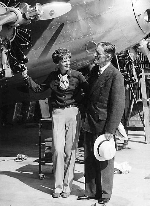 Photo of Amelia Earhart and Dr. Edward C. Elliott, president of Purdue University as Earhart with the Lockheed Electra she later disappeared in. Purdue University paid for the plane as Earhart was then a consultant on aeronautics there.